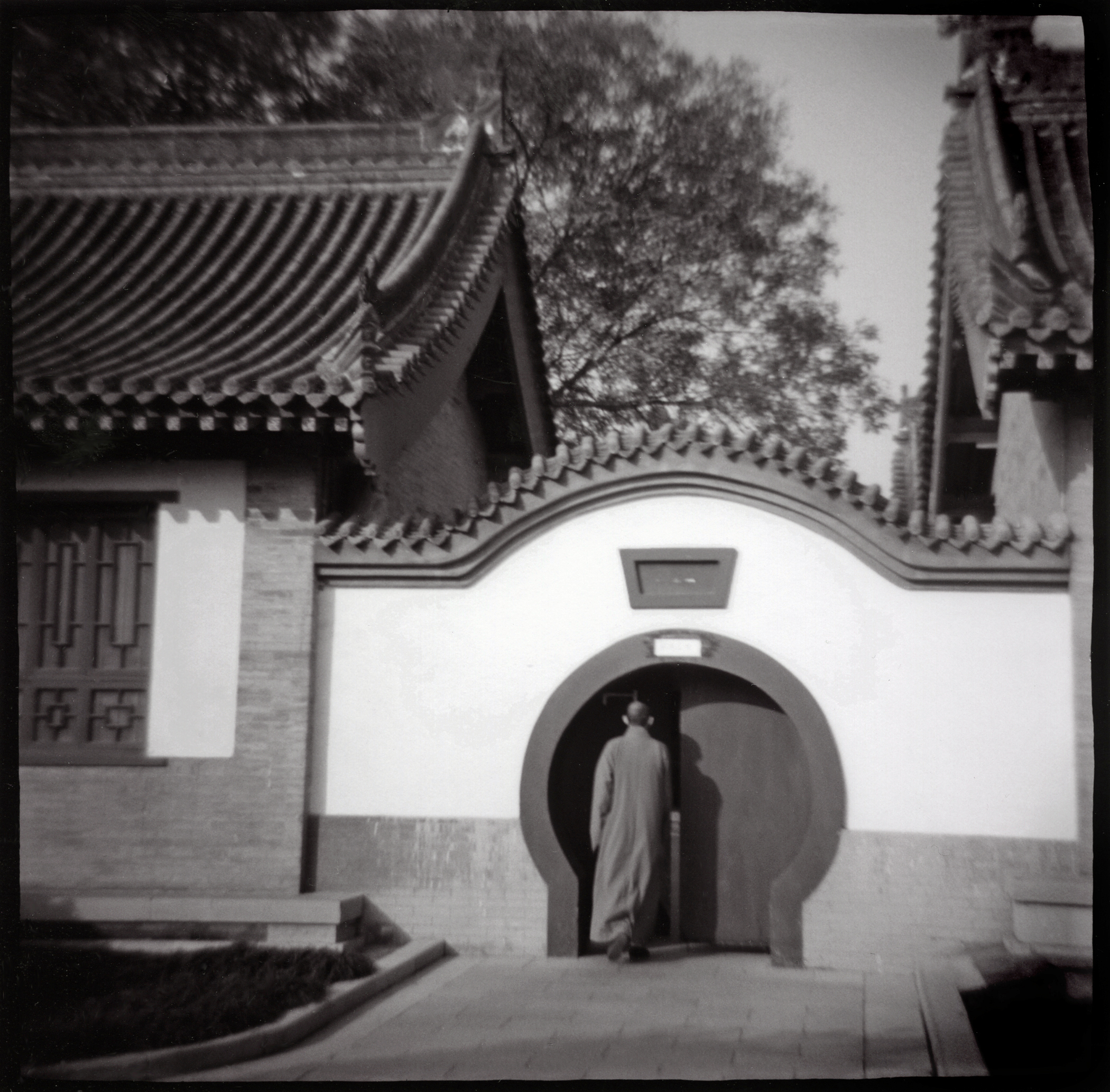 Da Ci'en Temple, Xi'an, China, 2007